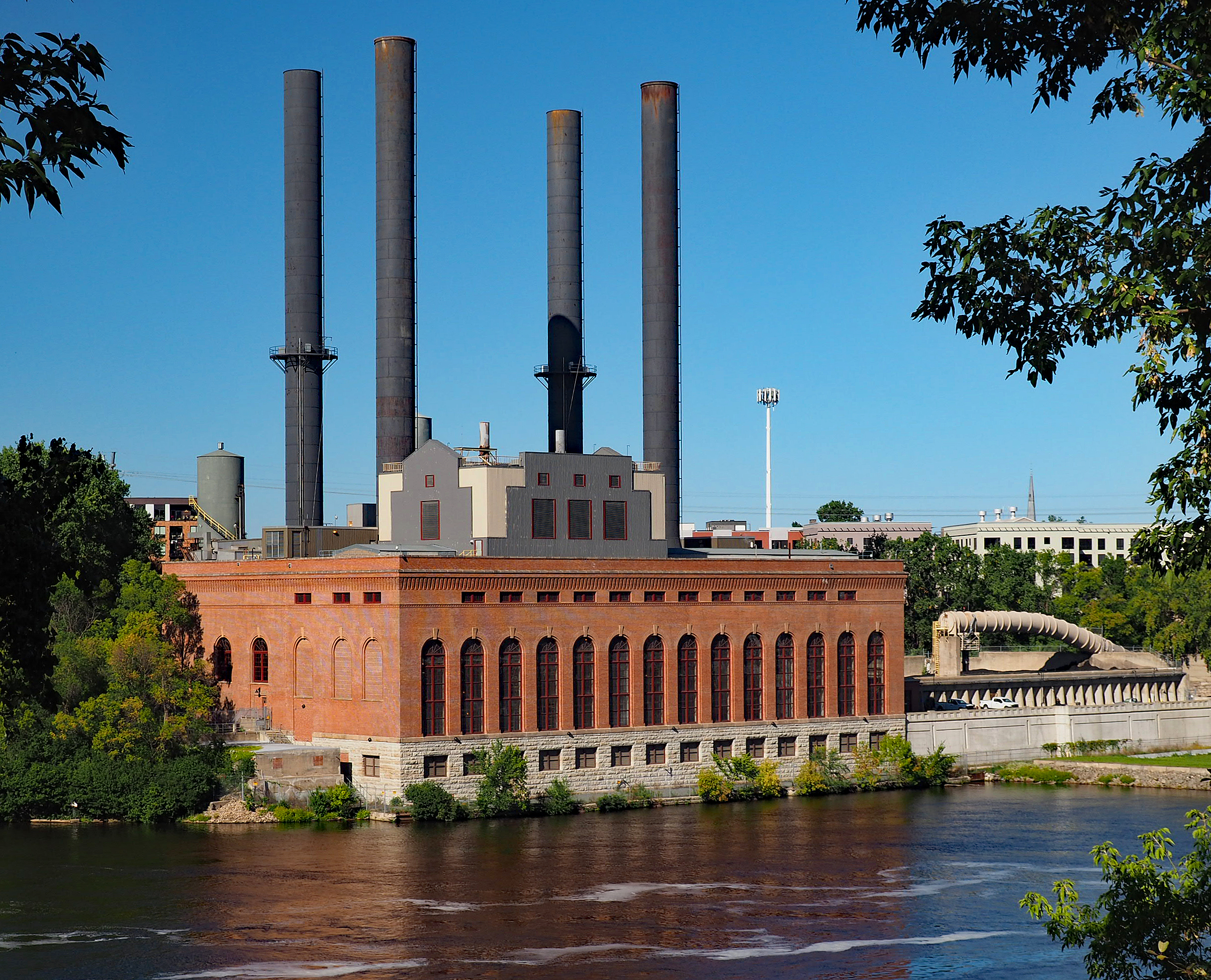 Twin City Rapid Transit Company Steam Power Plant (now the Southeast Steam Plant), 600 Main St SE, Minneapolis, Minnesota, USA. Viewed from the southwest from the 35W Bridge Remembrance Garden.